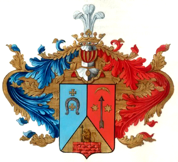 Coat of Arms of family Khrushchev